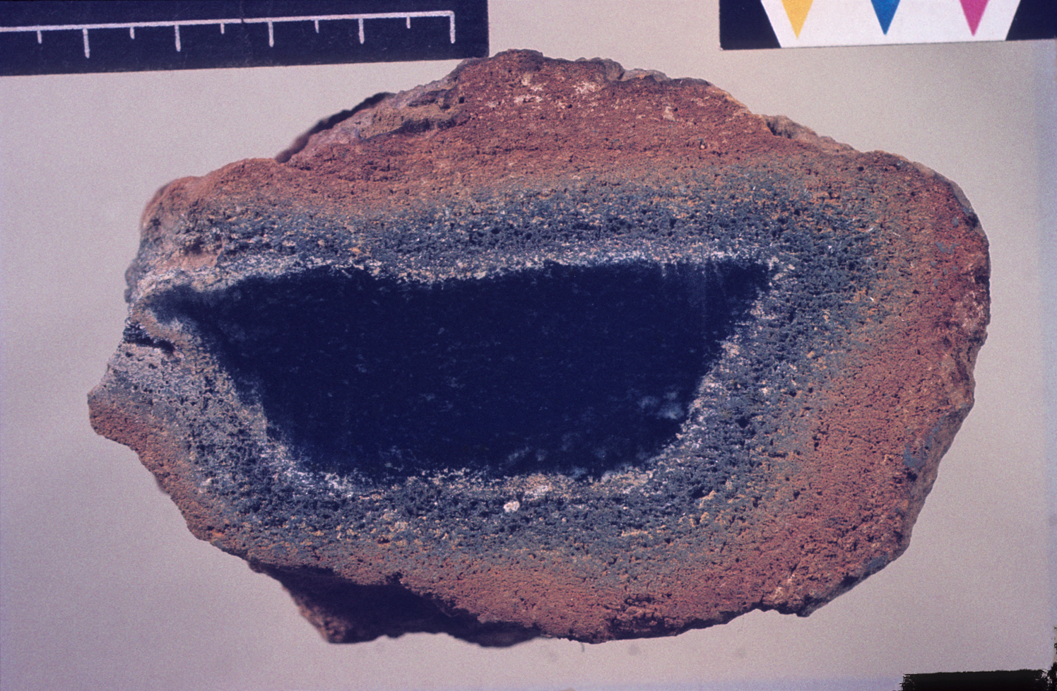 Lateritic weathering shells around core of amphibolite. Bonge Range, Liberia